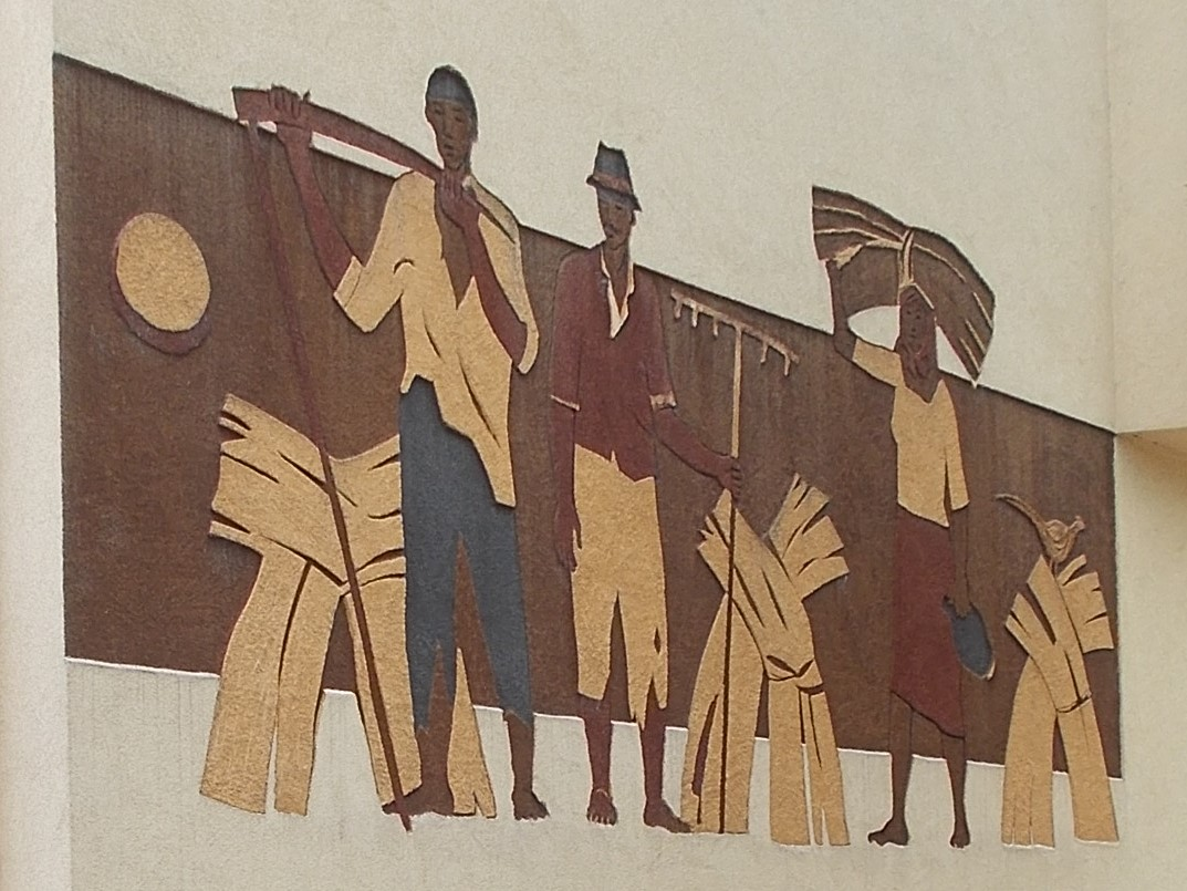 Harvesters by Ignác Kokas (1959 sgraffito, building ornament, ; reconstructed by Kornél Zámbó, 2013). - Rákóczi street, Oroszlány, Komárom-Esztergom County.